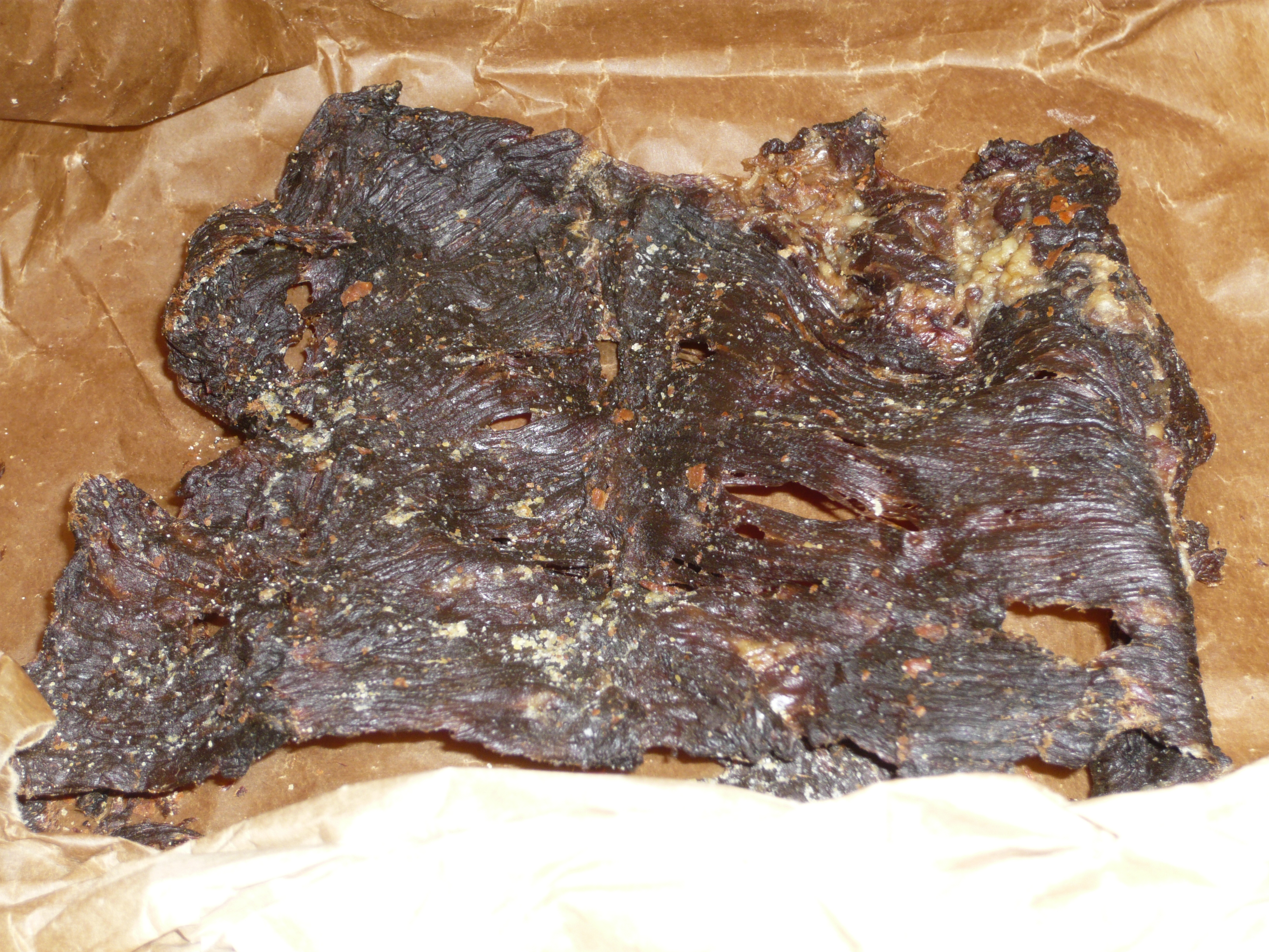 Nature (salted) Hausa kiliši (kilichi, kilishi) from Niamey, Niger